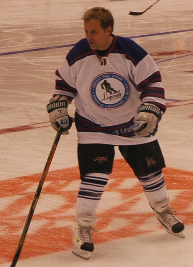 Cliff Ronning played with the All-Star Legends 2008 in Toronto